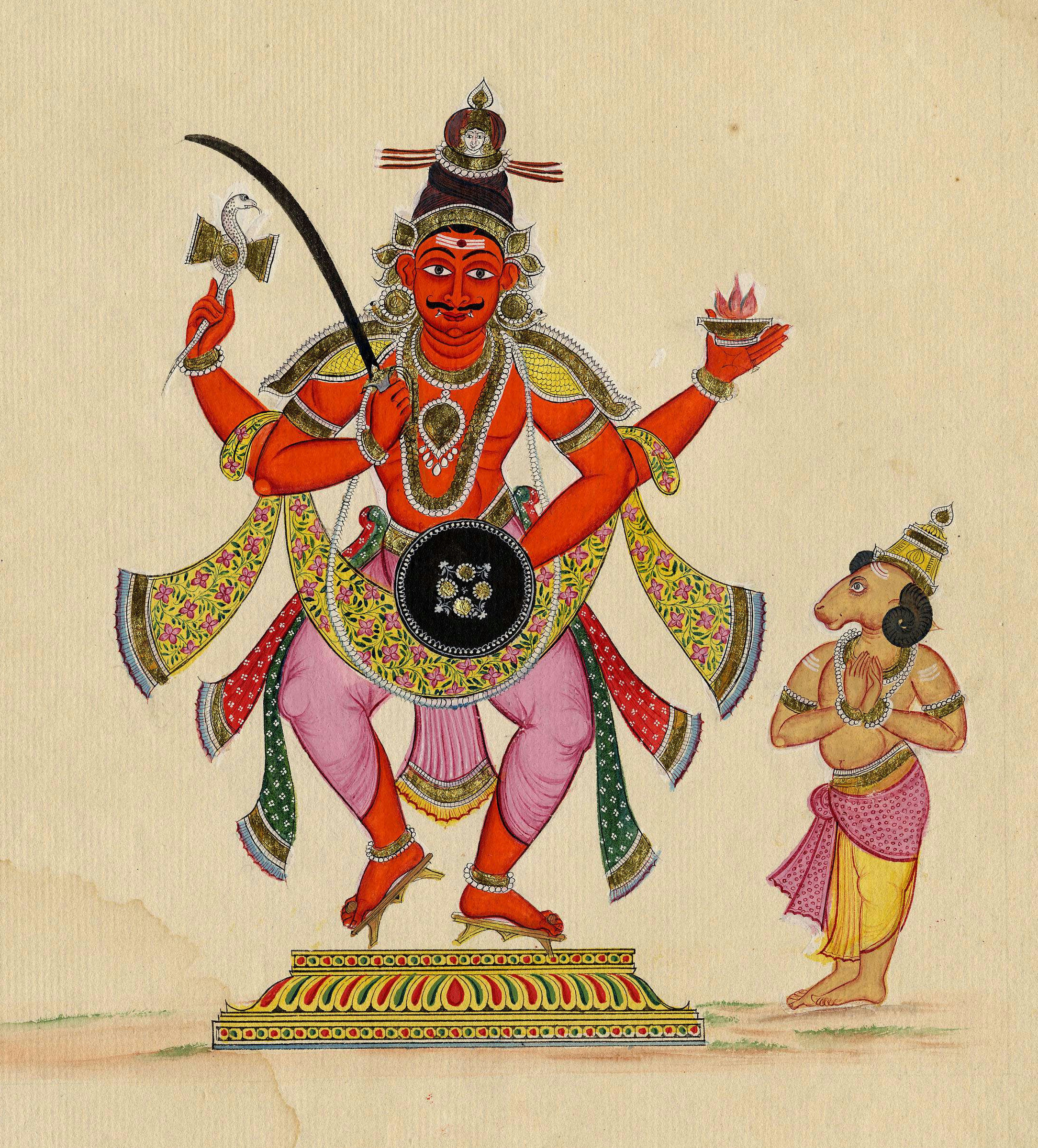 "Painting on paper depicting Virabhadra. The red-hued deity is coiffed exactly like Śiva. This is an unusual rendering of Virabhadra. The face of the Ganga peeps out of the dreadlocks, while loose jatas fly around his head. On his forehead is a prominent tripundra. Side fangs protrude from his mouth and a bushy moustache grows on his upper lip. In his upper right hand is a damaru, in his upper left hand a flame, the lower right hand carries a sword and the lower left a buckler. The attributes in his upper hands are unusual, as they generally bear the bow and the arrow. He is dressed in a dhoti adorned by sashes on the sides and an angavastra is draped on his elbows. Among his ornaments is a long white garland. On his feet are toe-knob sandals. At his left stands the ram-headed Daksha, sporting tripundra marks on his forehead and arms dressed in dhoti and with the angavastra tied around his hips."